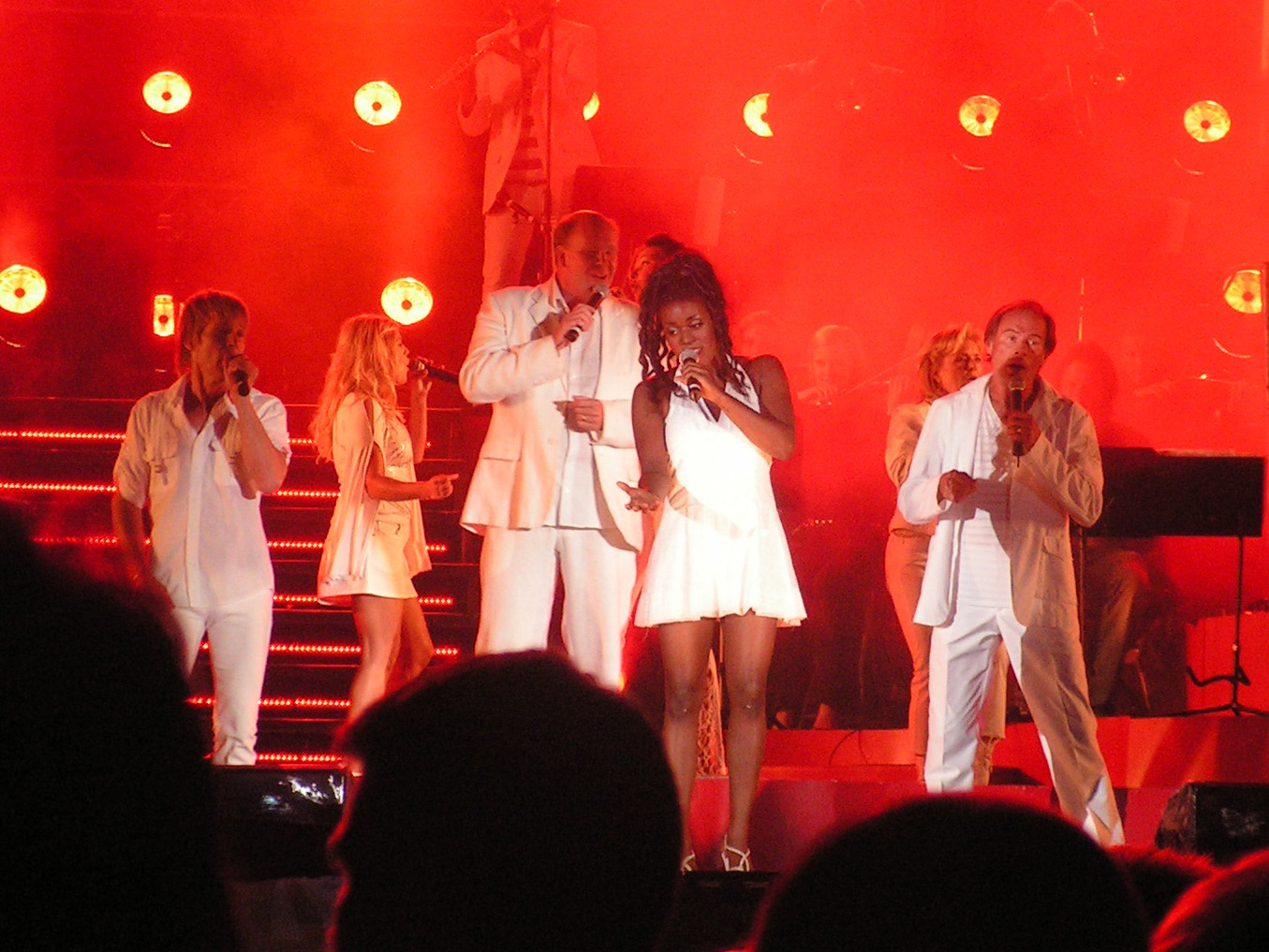 The show Diggiloo, at Götaplatsen, Gothenburg, Sweden